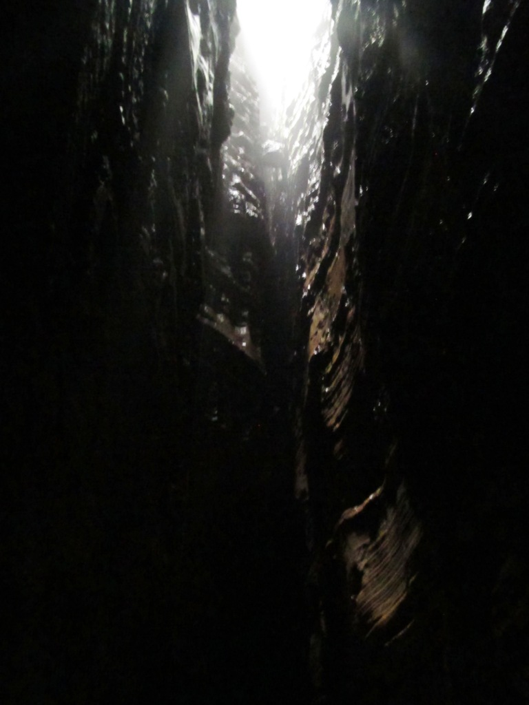 The main entrance of the cave, seen from the cave.